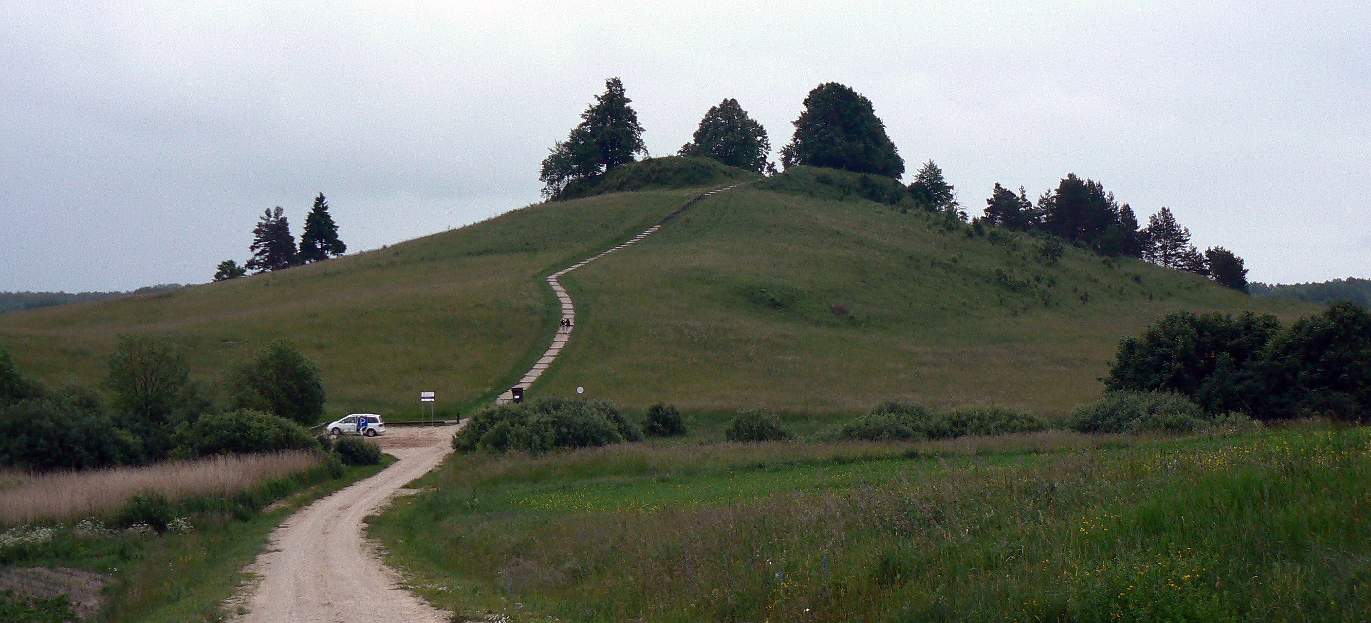 Rudamina hill fort near Rudamina town in Lazdijai district, Lithuania.